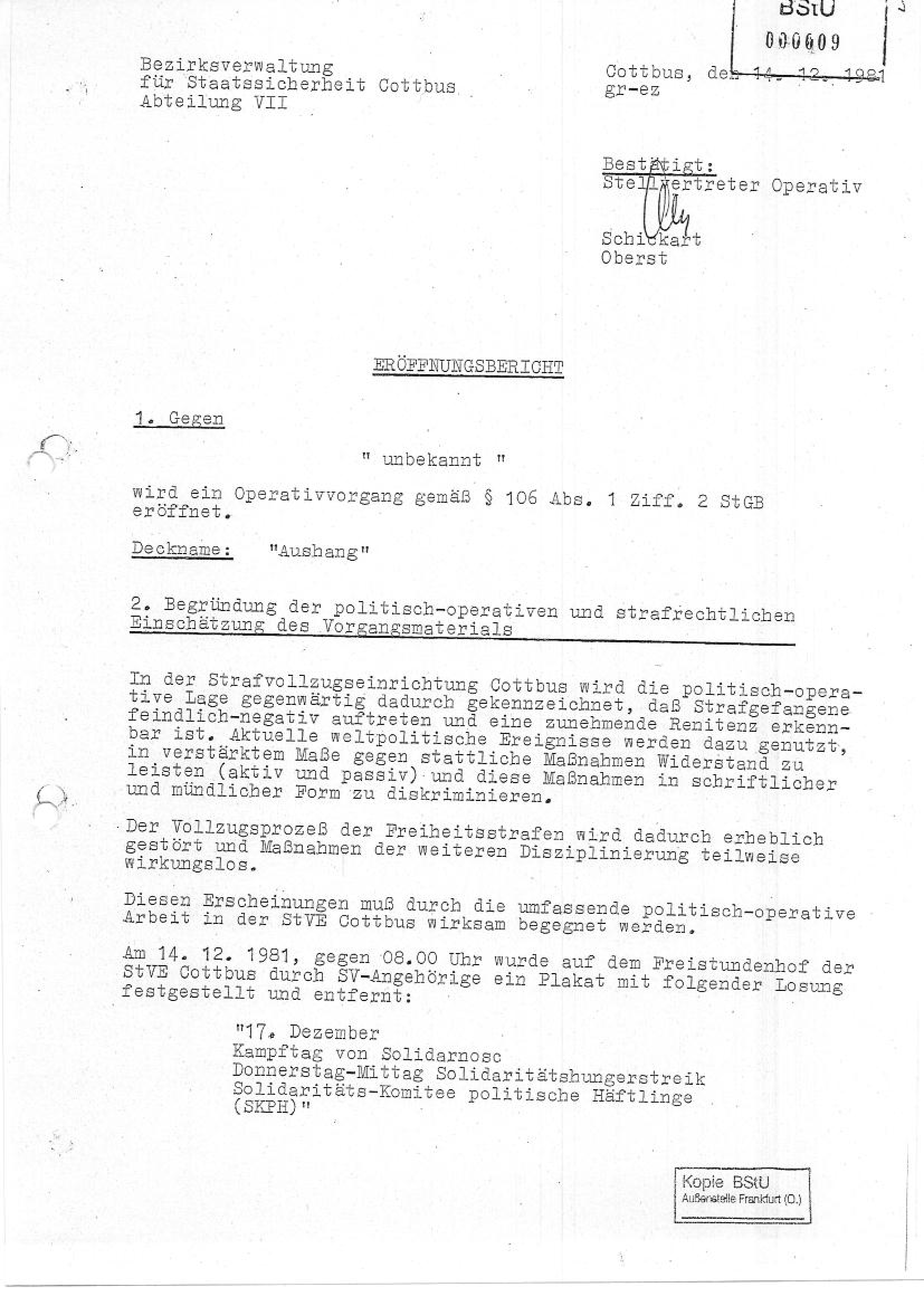 First page of the preliminary report made by officers of Cottbus branch of Stasi, concerning the hunger strike planned by political prisoners in Cottbus Prison. The objective of the strike was to protest against imposing martial law in Poland on 13 December 1981 and to support polish Solidarity movement. Document was created on 14 December 1981